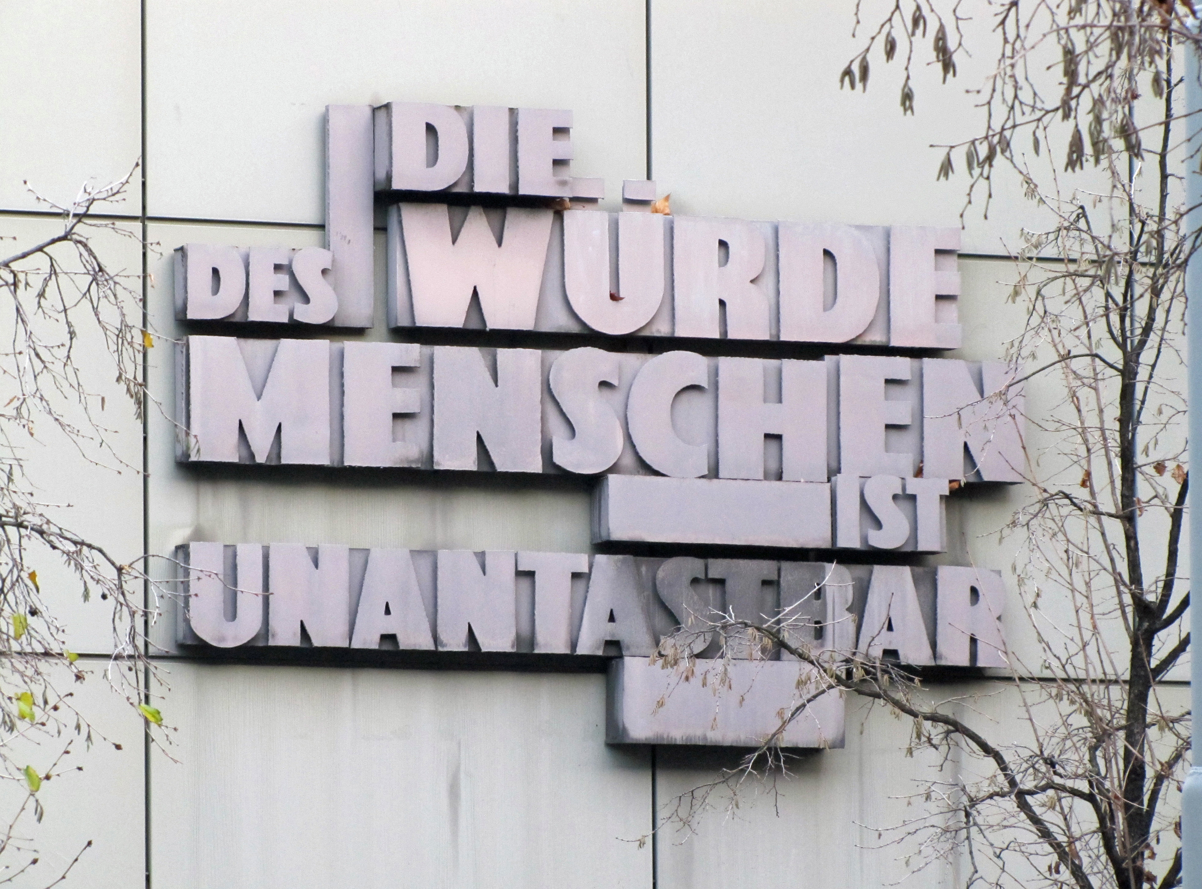 Article 1 ("Human dignity shall be inviolable."), sentence 1, of Basic Law for the Federal Republic of Germany, at courthouse in Frankfurt am Main, Germany.